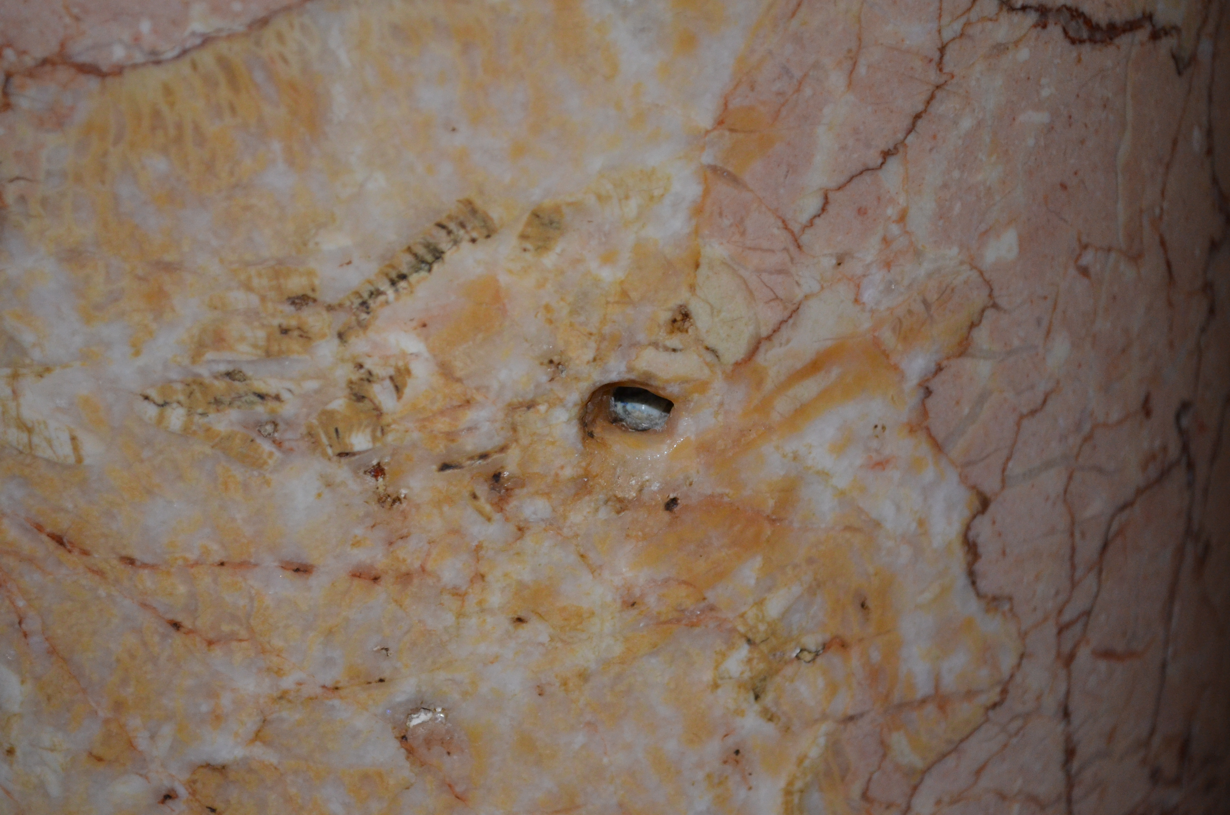 Close-up of the column at the Louisiana State Capitol in Baton Rouge, Louisiana containing a bullet hole from the assassination of Huey Long.